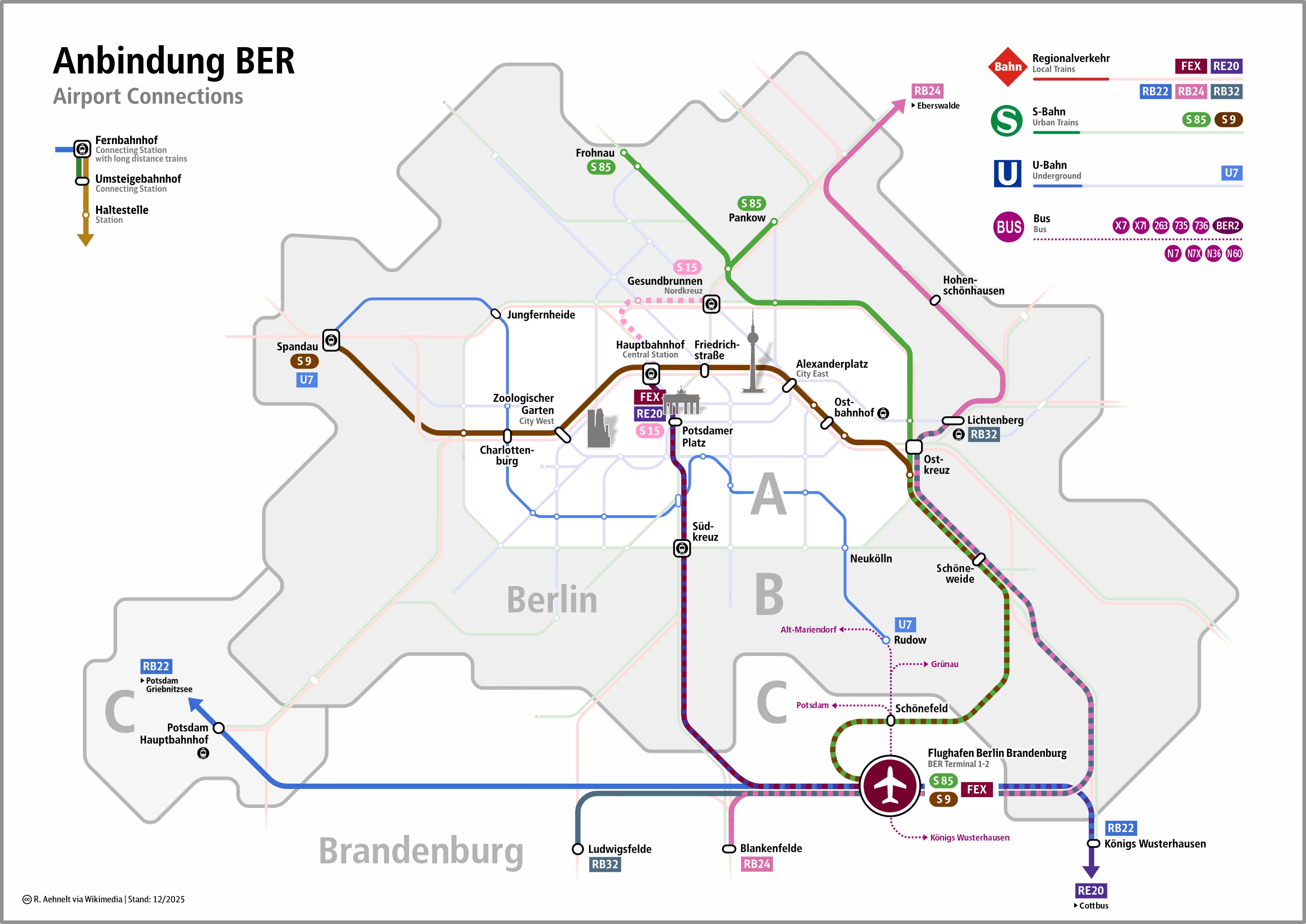 Connections to Airport Berlin Brandenburg International